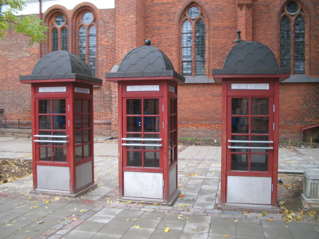 Phone Booth, Kaunas (Lithuania).